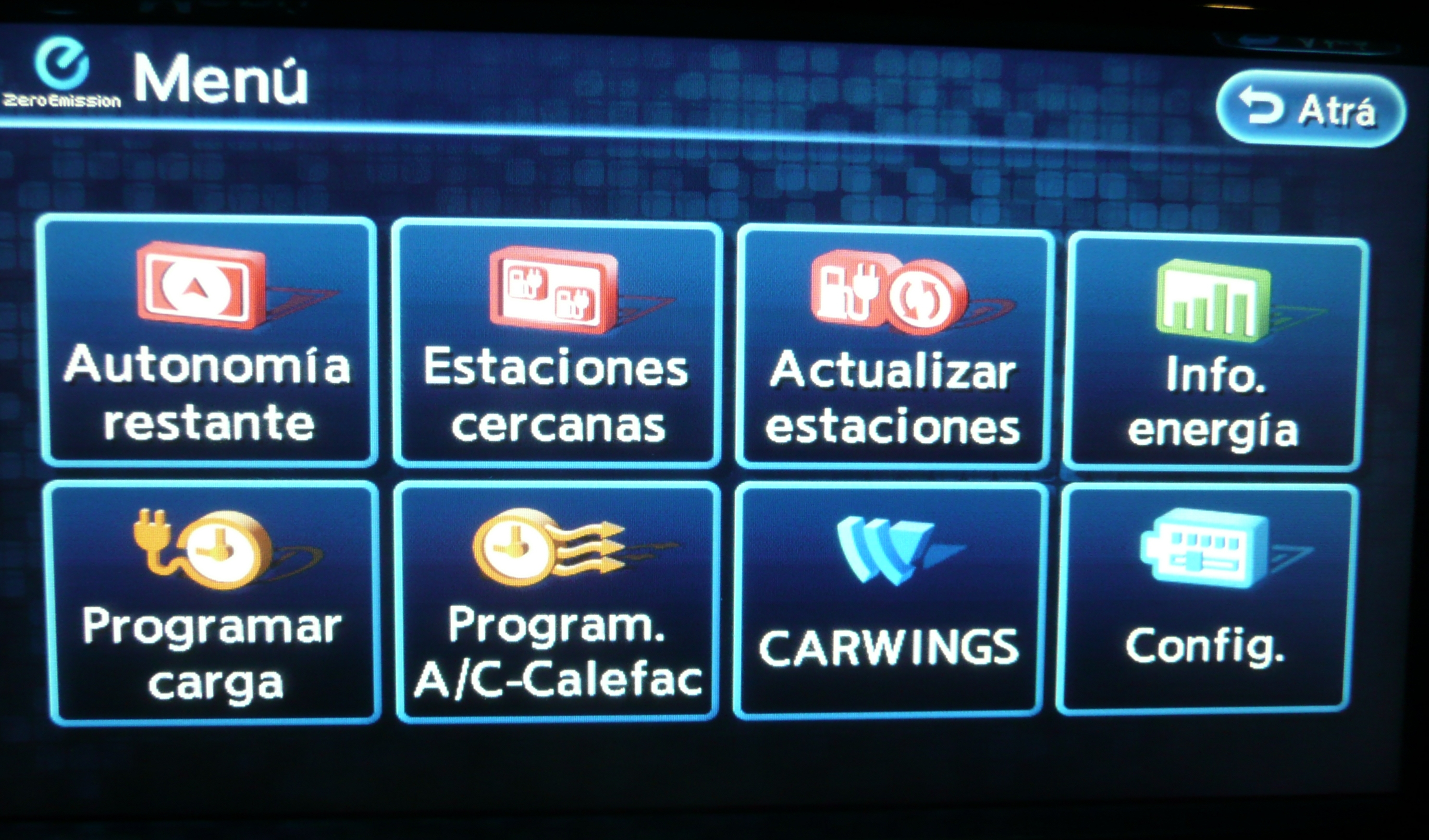 Nissan Leaf Dashboard Display (Spanish)